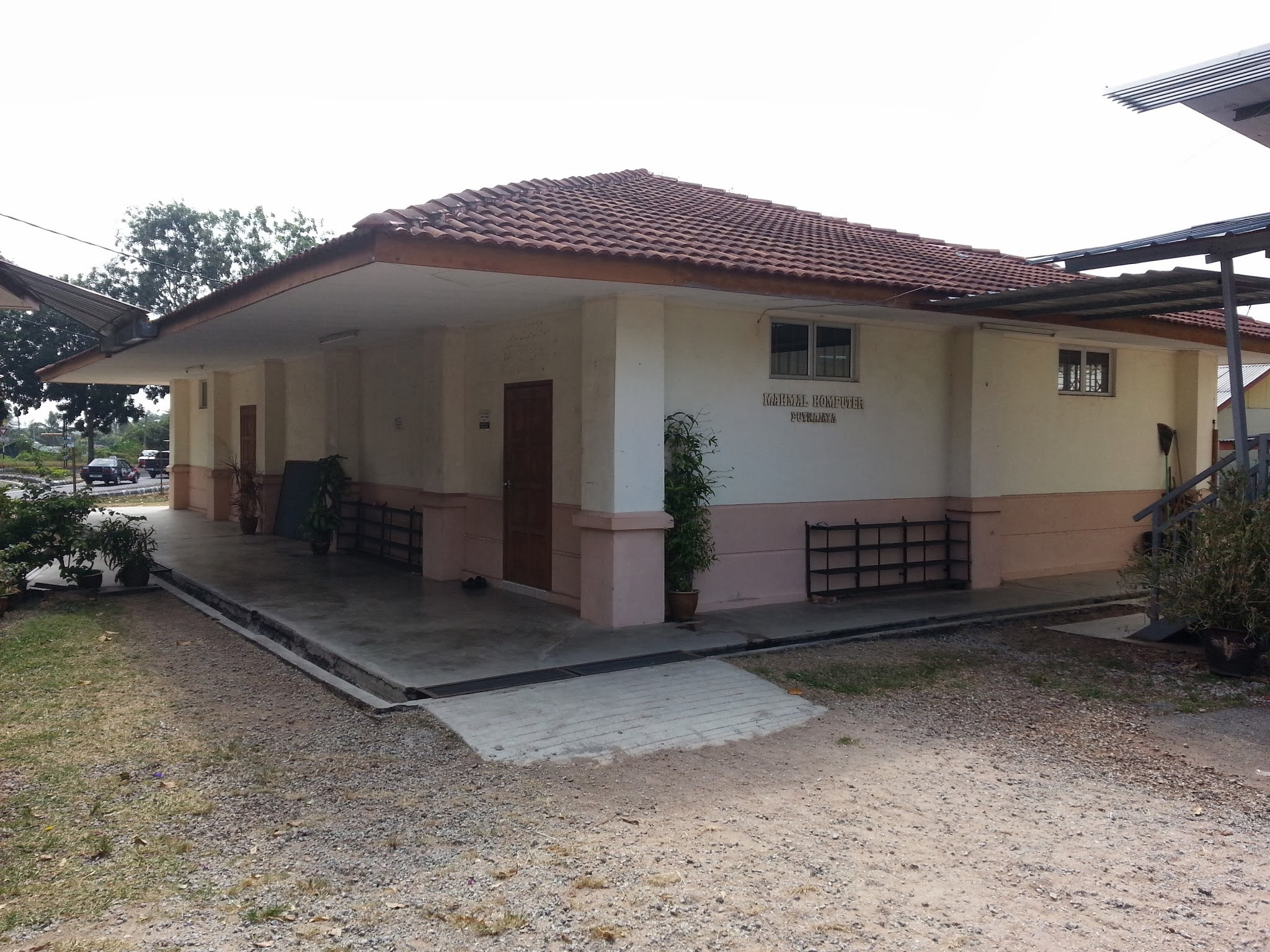 persekitaran sksb